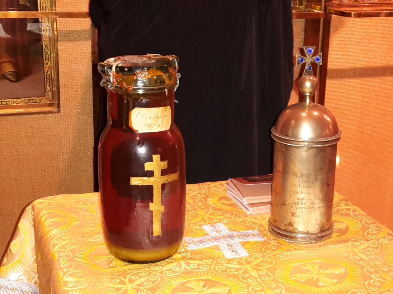 Myrrh in Church of Synodical Office of the Orthodox Church of Finland